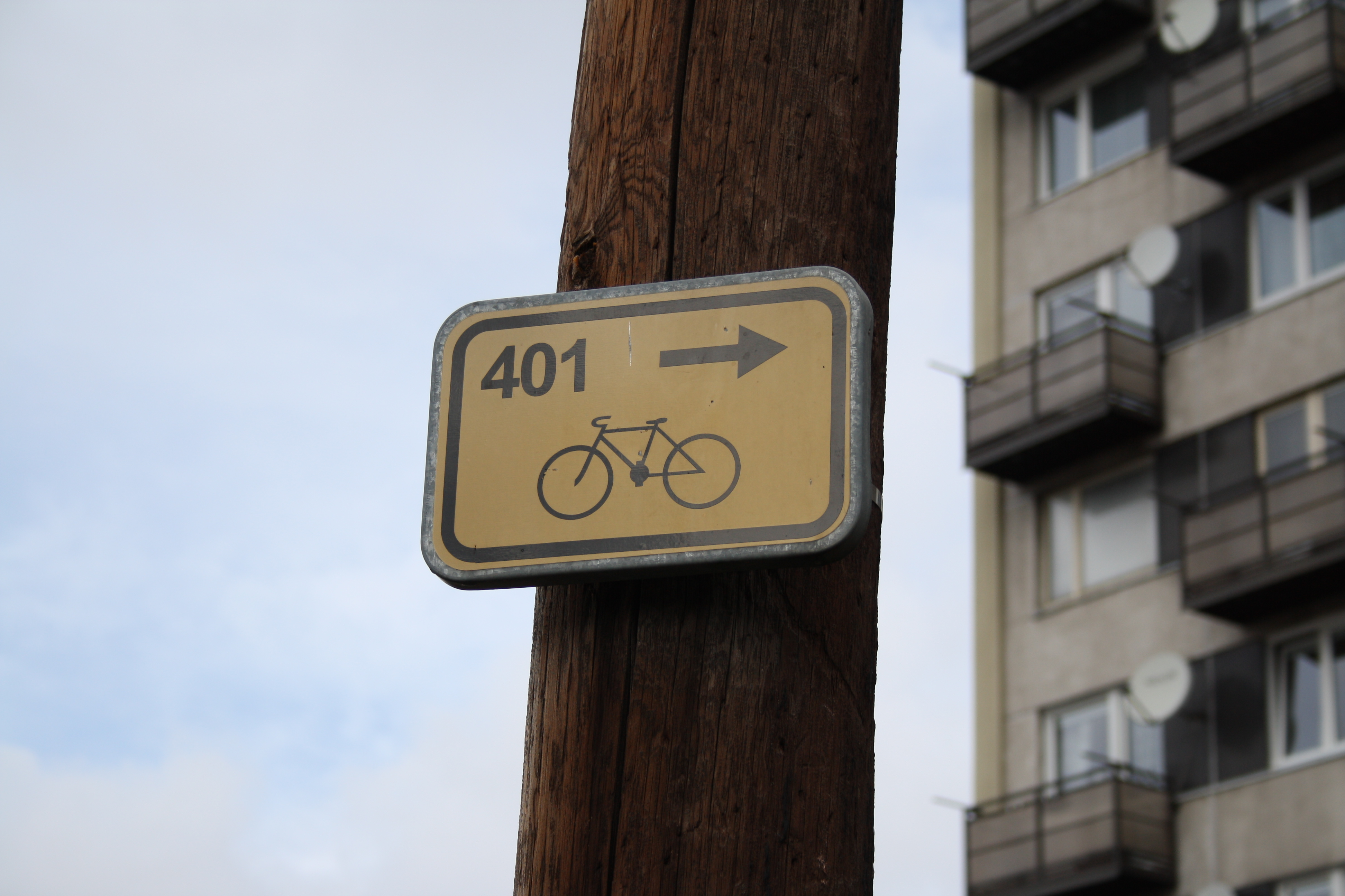 Cycle route 401 sign in Třebíč.